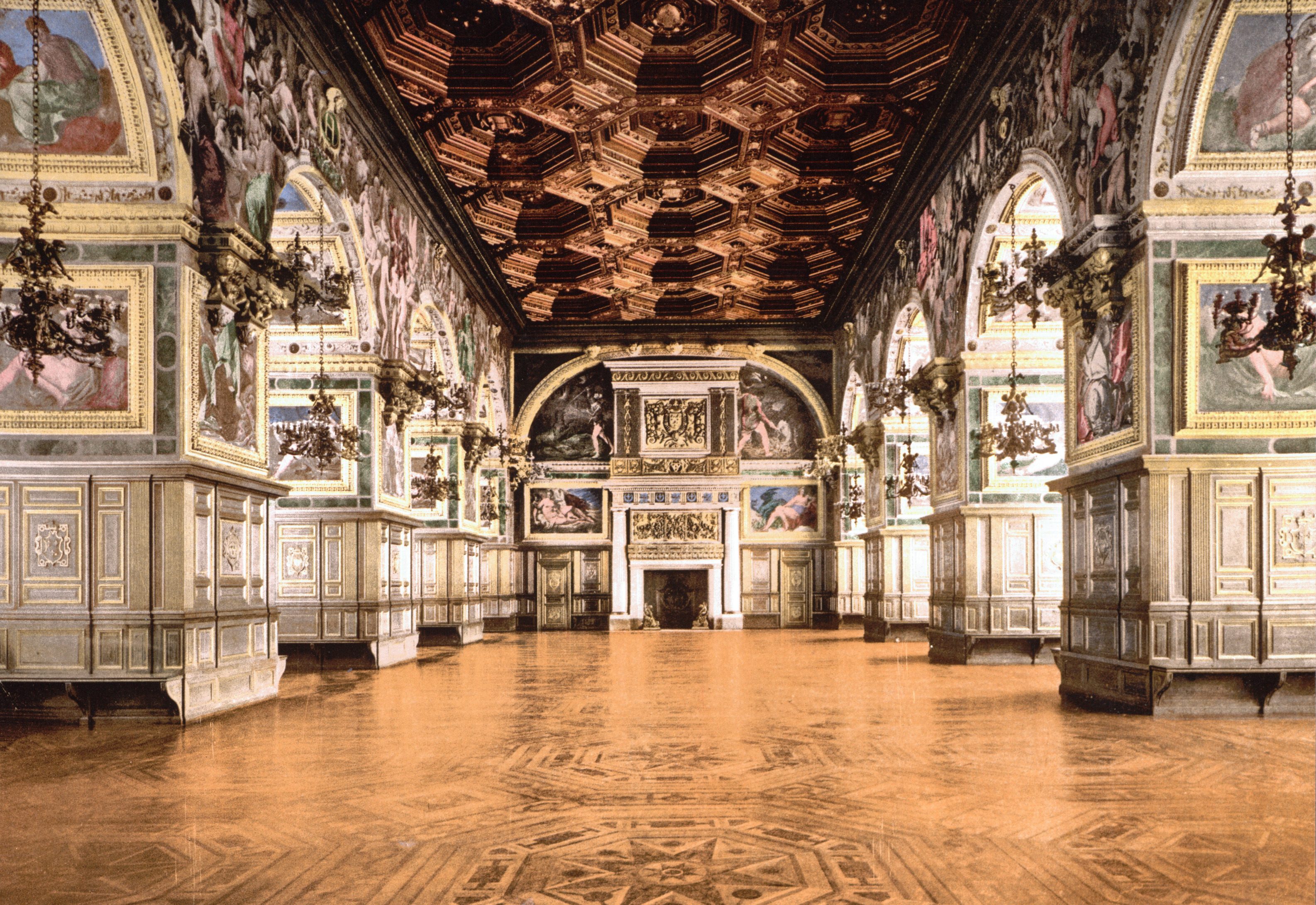 Château of Fontainebleau, gallery of Henry II